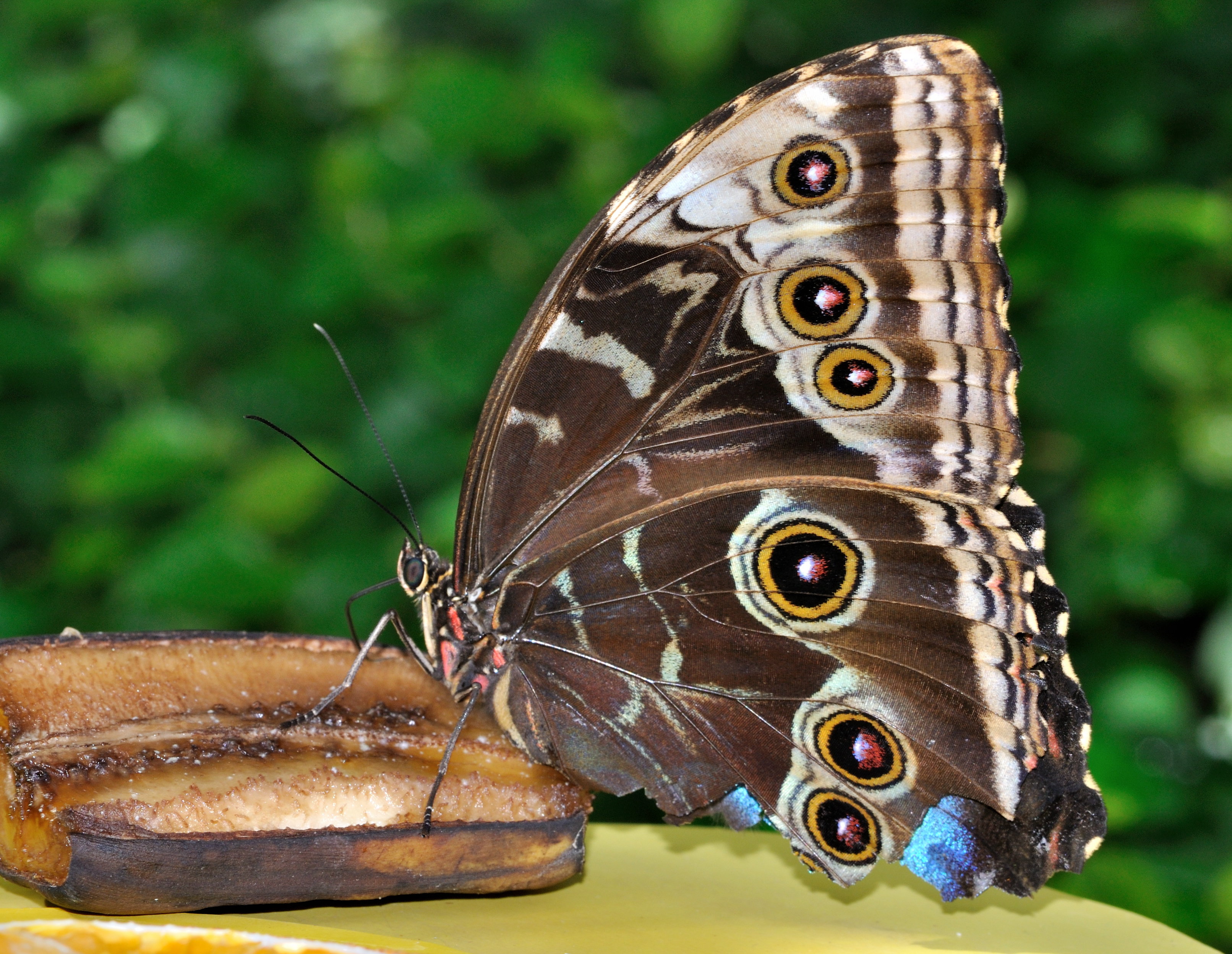 Peleides Blue Morpho (Morpho peleides) feeding on a banana in the Wilhelma, Stuttgart, Germany.